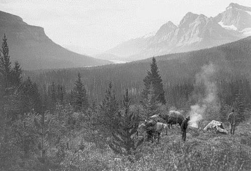 Men and pack-horses at a camp in the Howse Pass, Alberta, Canada.